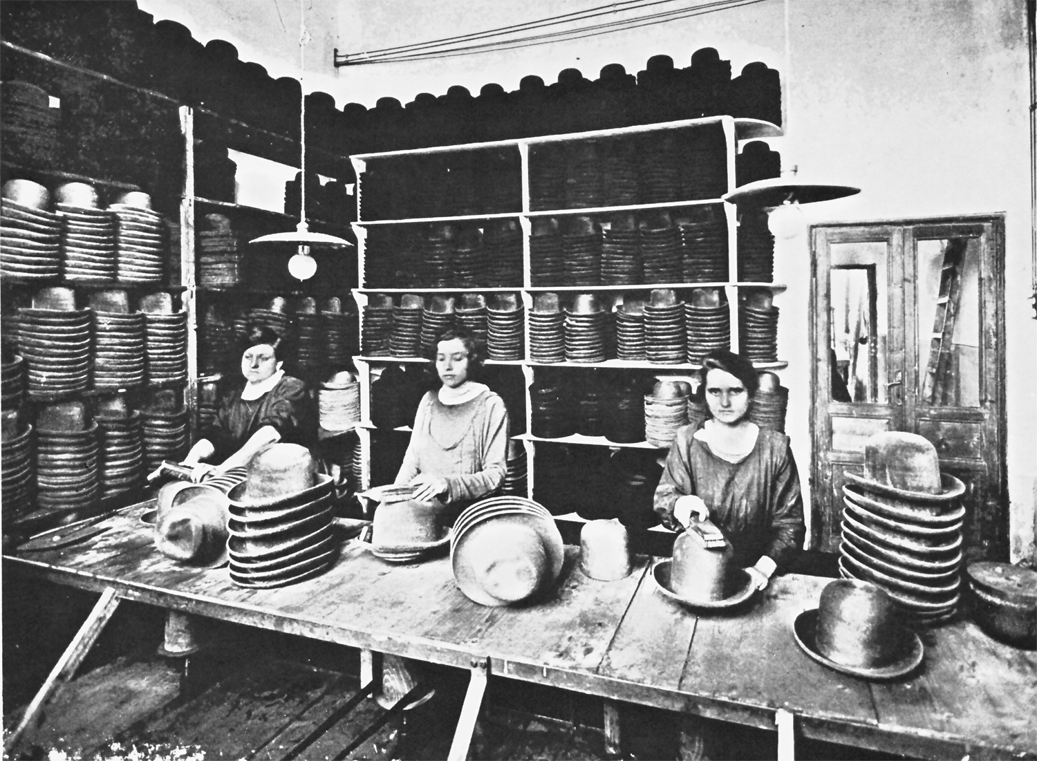 Production of hats in Montevarchi at "La Familiare" Factory